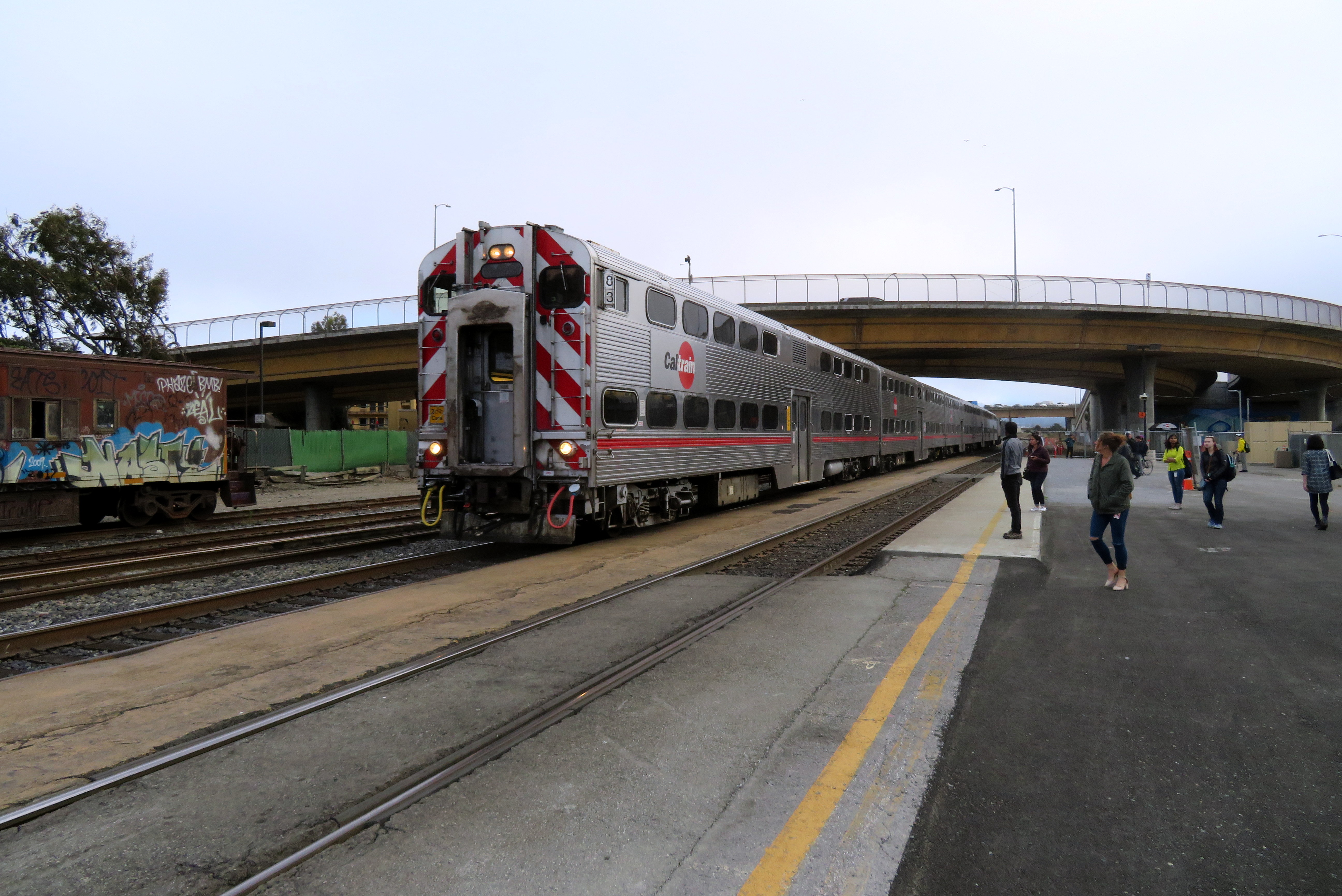 A northbound train arriving at South San Francisco station in July 2018